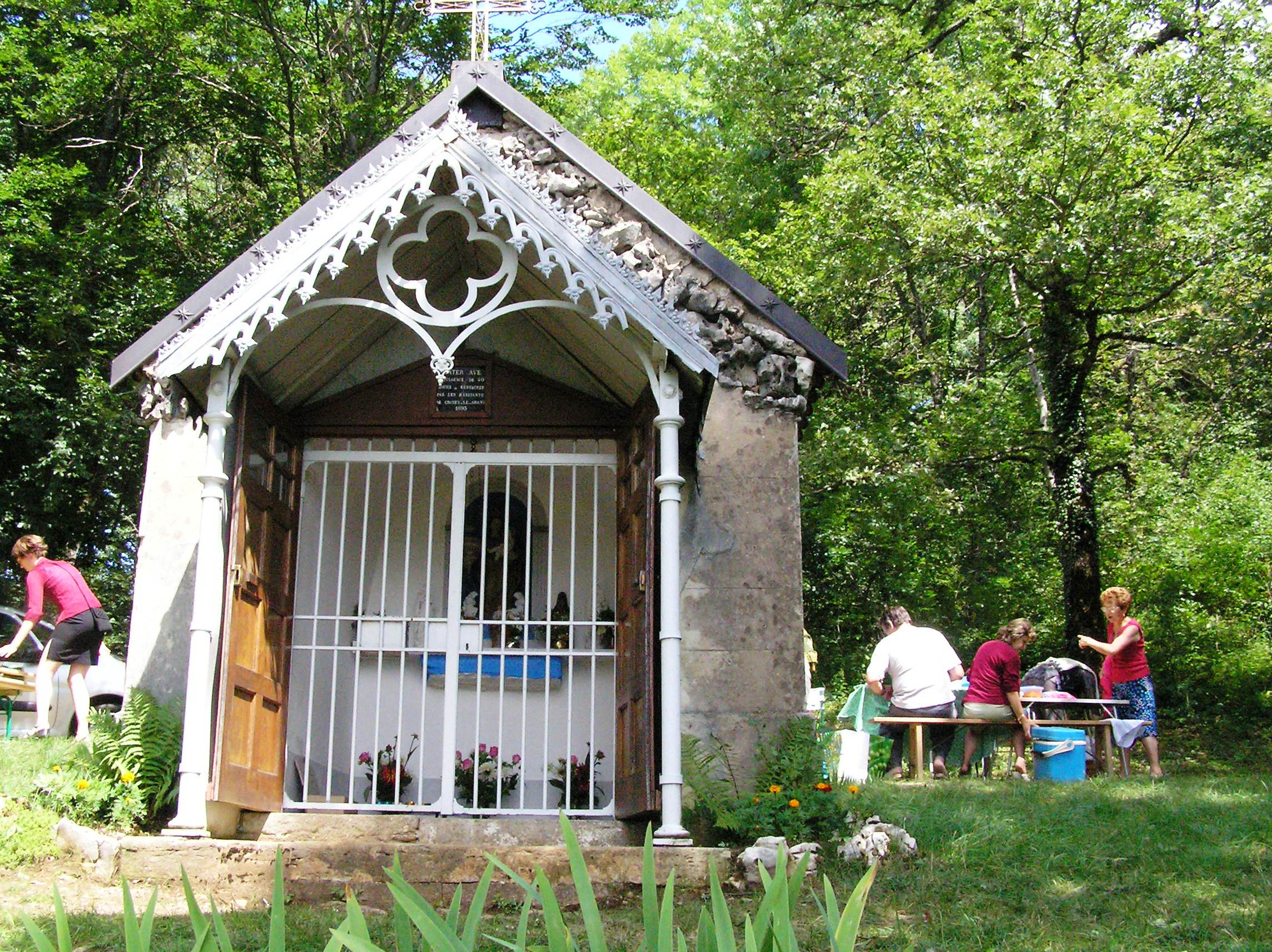 25340 Crosey-le-Grand, France